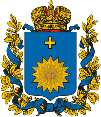 Coat of Arms of Podolia Governorate, Russian Empire